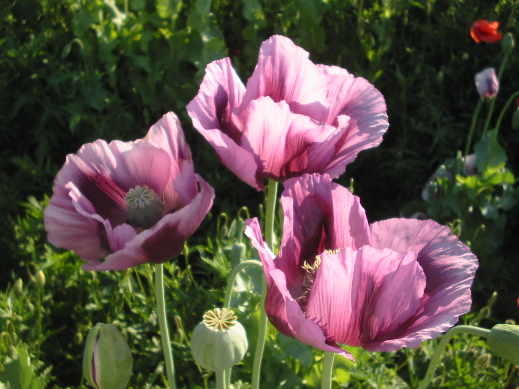 A poppy seed flower, in german called "Mohn" Papaver somniferum; blue poppy; blauer MohnMohn